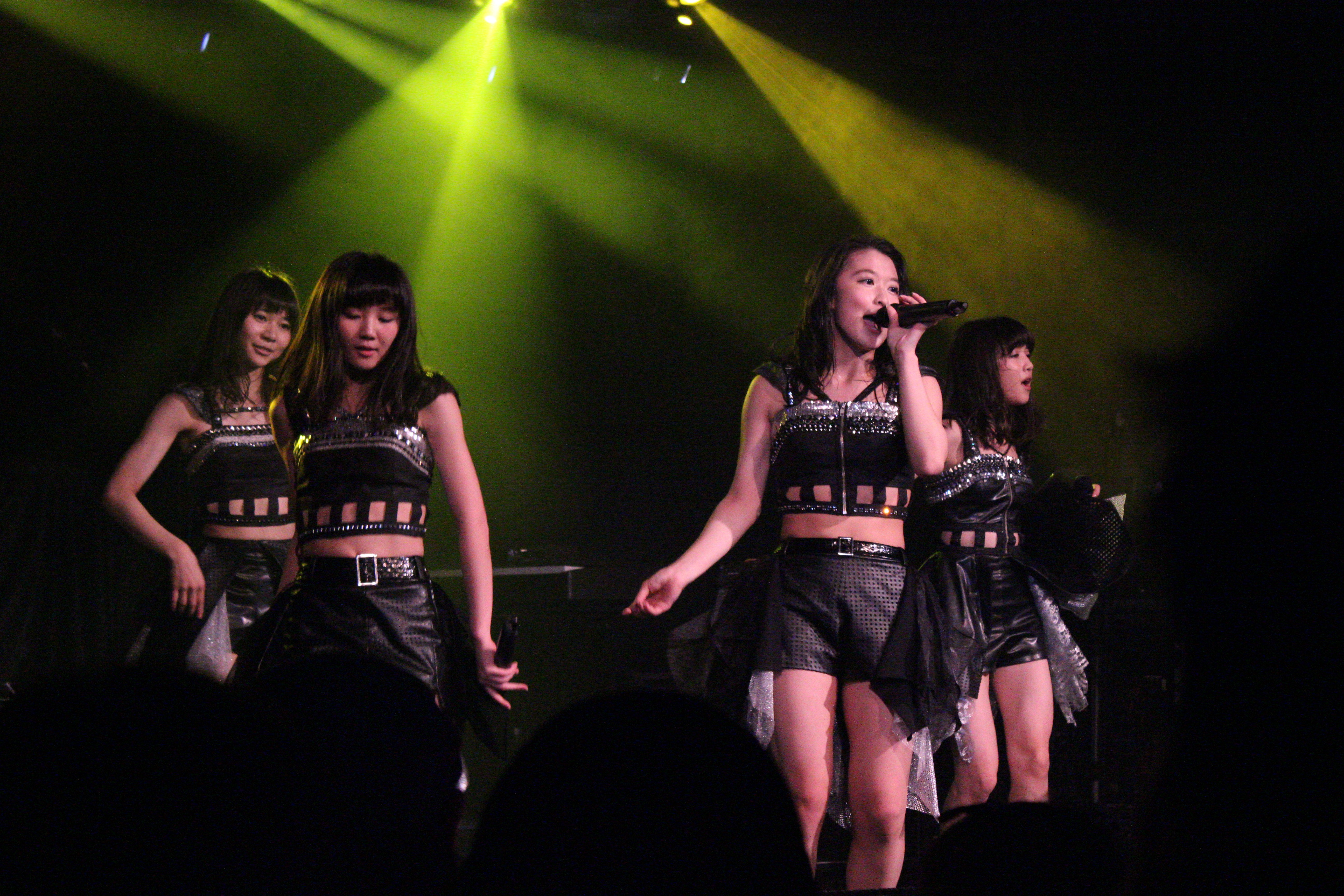 Japanese idol group TOKYO GIRLS' STYLE perform at HYPER JAPAN summer festival.